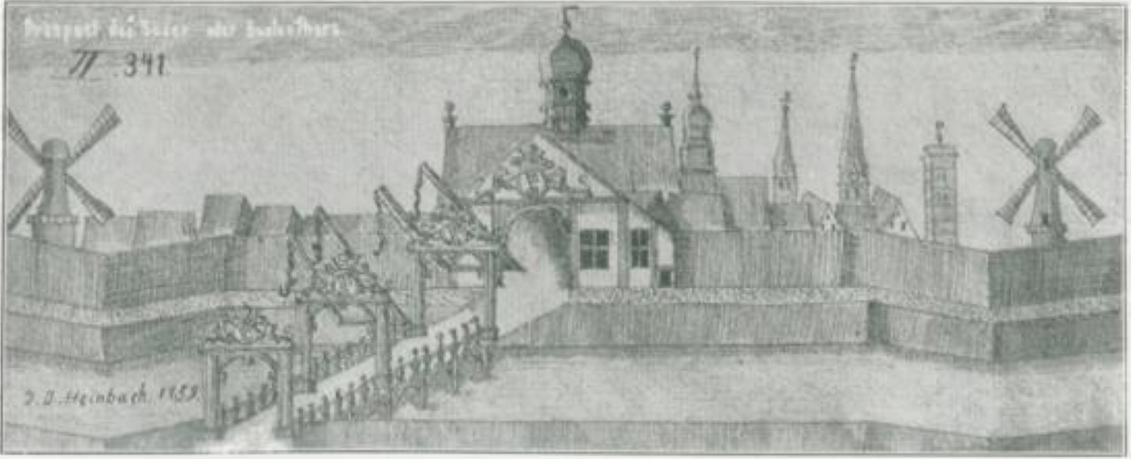 Drawing the Buntentor (gate) in Bremen